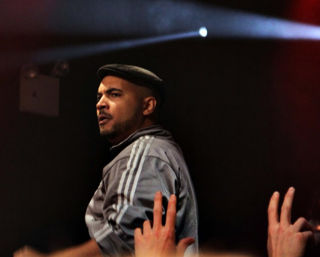 Rapper and producer Tone-deaf performing live in 2011.